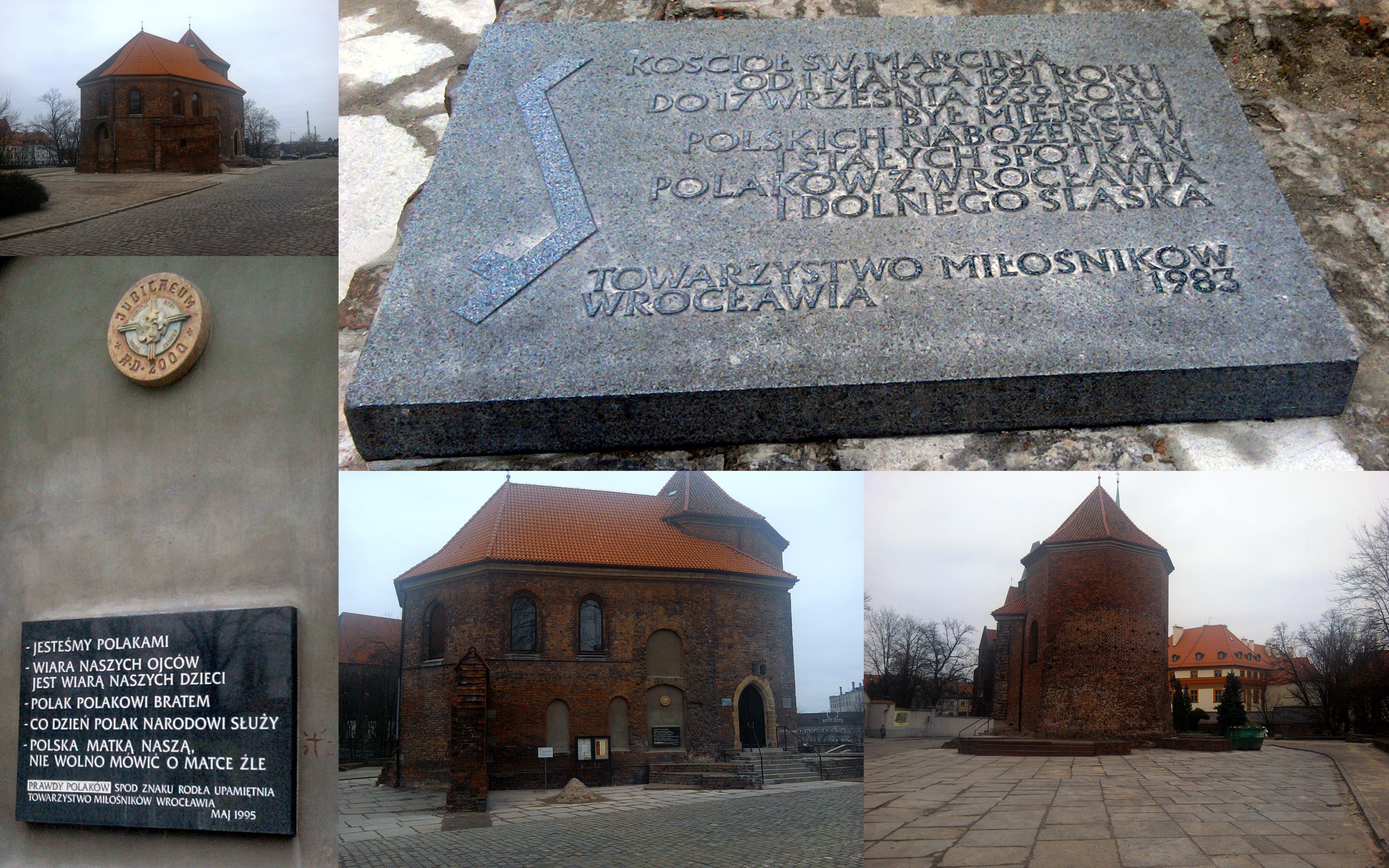 Photo collage - St. Martin's Church in Wrocław